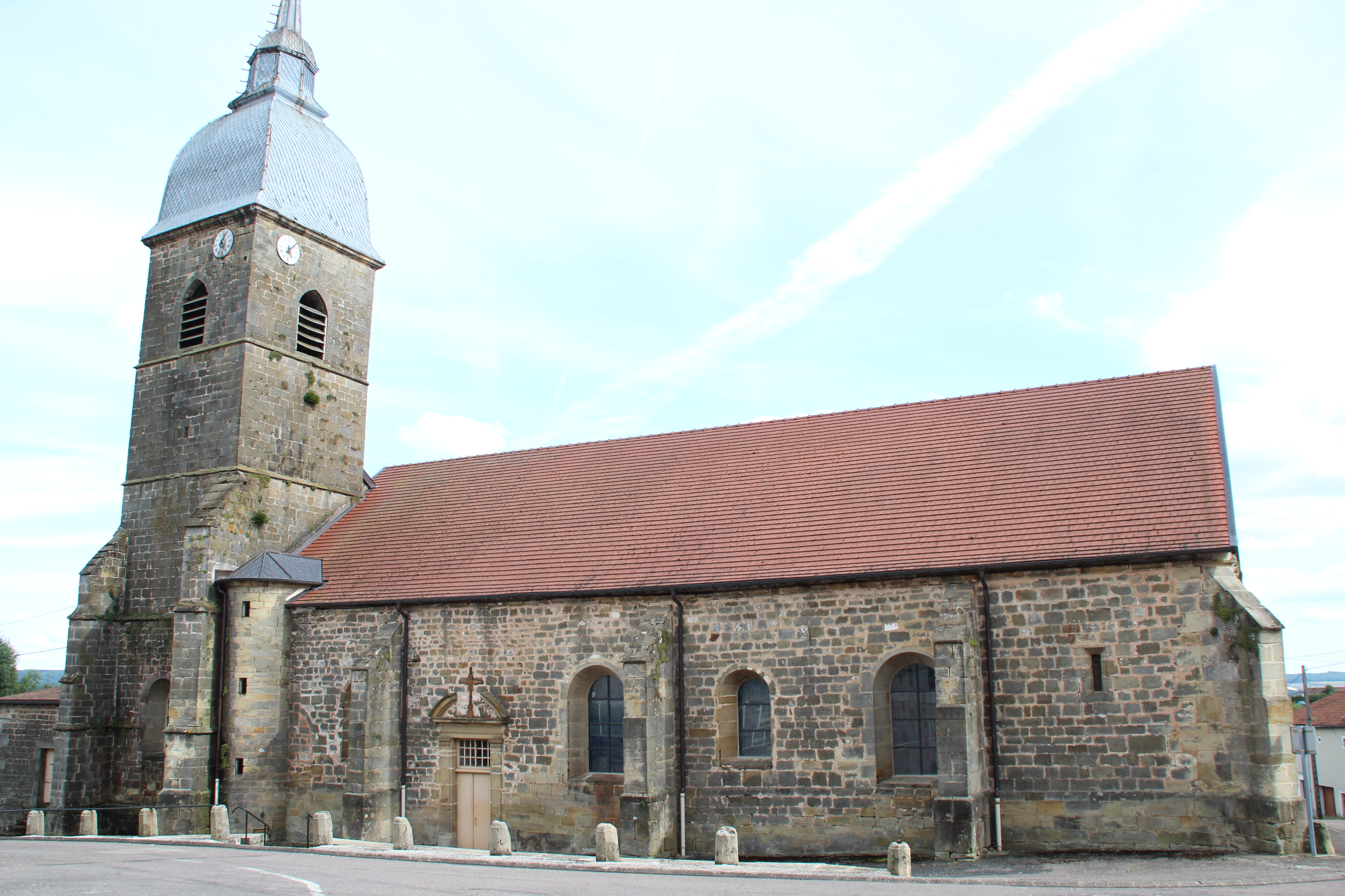 Saint-Blaise church in Serqueux, Haute-Marne, France.